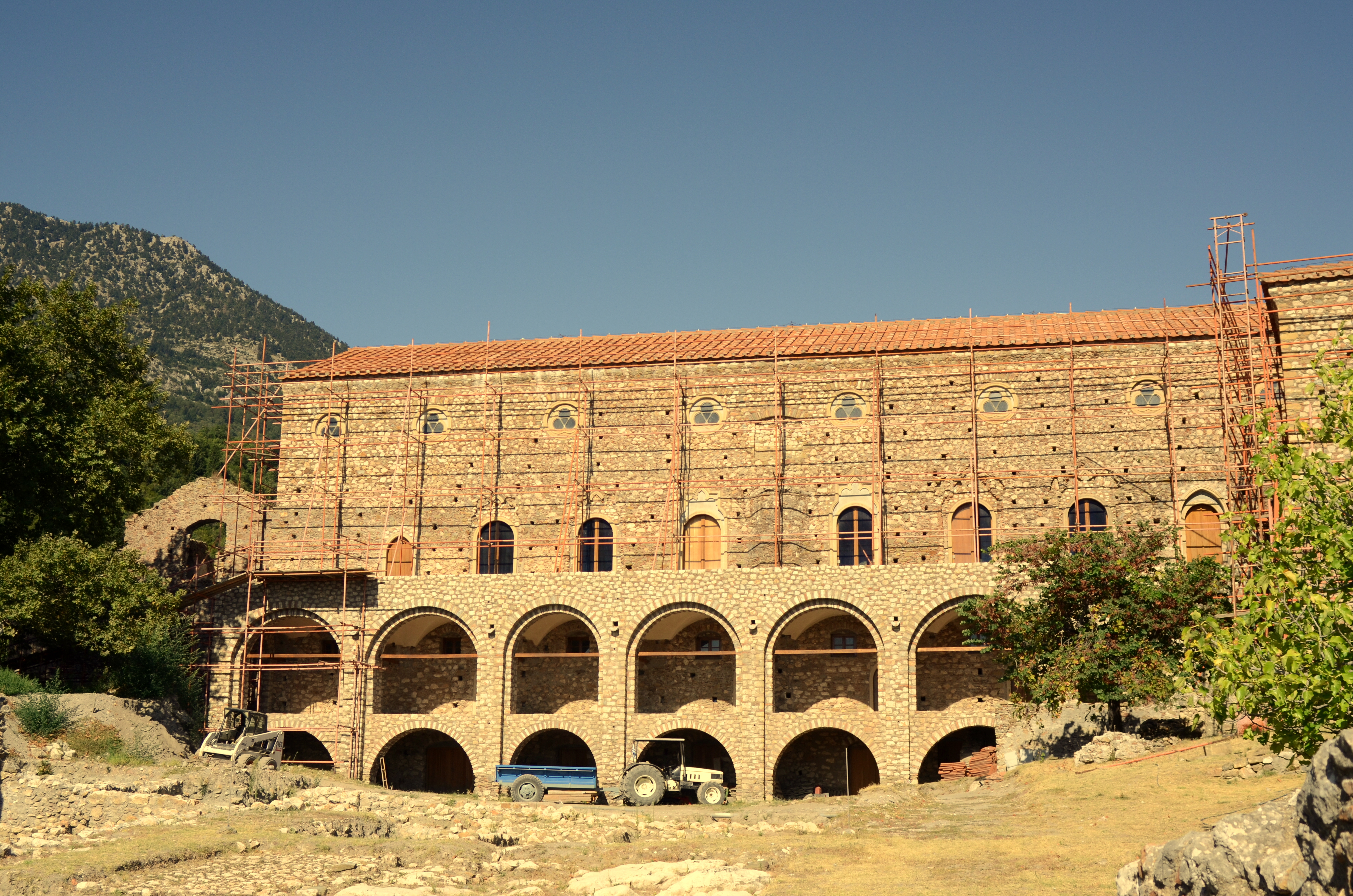 Part of the mediaeval fortified town of Mystras.